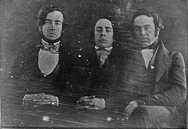 [Henry, George and Stephen Childs, half-length portrait, facing front]. Plumbe, John, 1809-1857, photographer. CREATED/PUBLISHED: [1842 Nov. 25] NOTES: Hallmark: Plumbe's patent, Oct. 22, 1842. Matted in wooden frame. Written on back of frame: H.C. Nov. 25, 1842. Stephen, Henry & George Childs in order from the left - Henry - George - Stephen. Forms part of: Daguerreotype collection (Library of Congress). REPOSITORY: Library of Congress Prints and Photographs Division Washington, D.C. 20540 USA